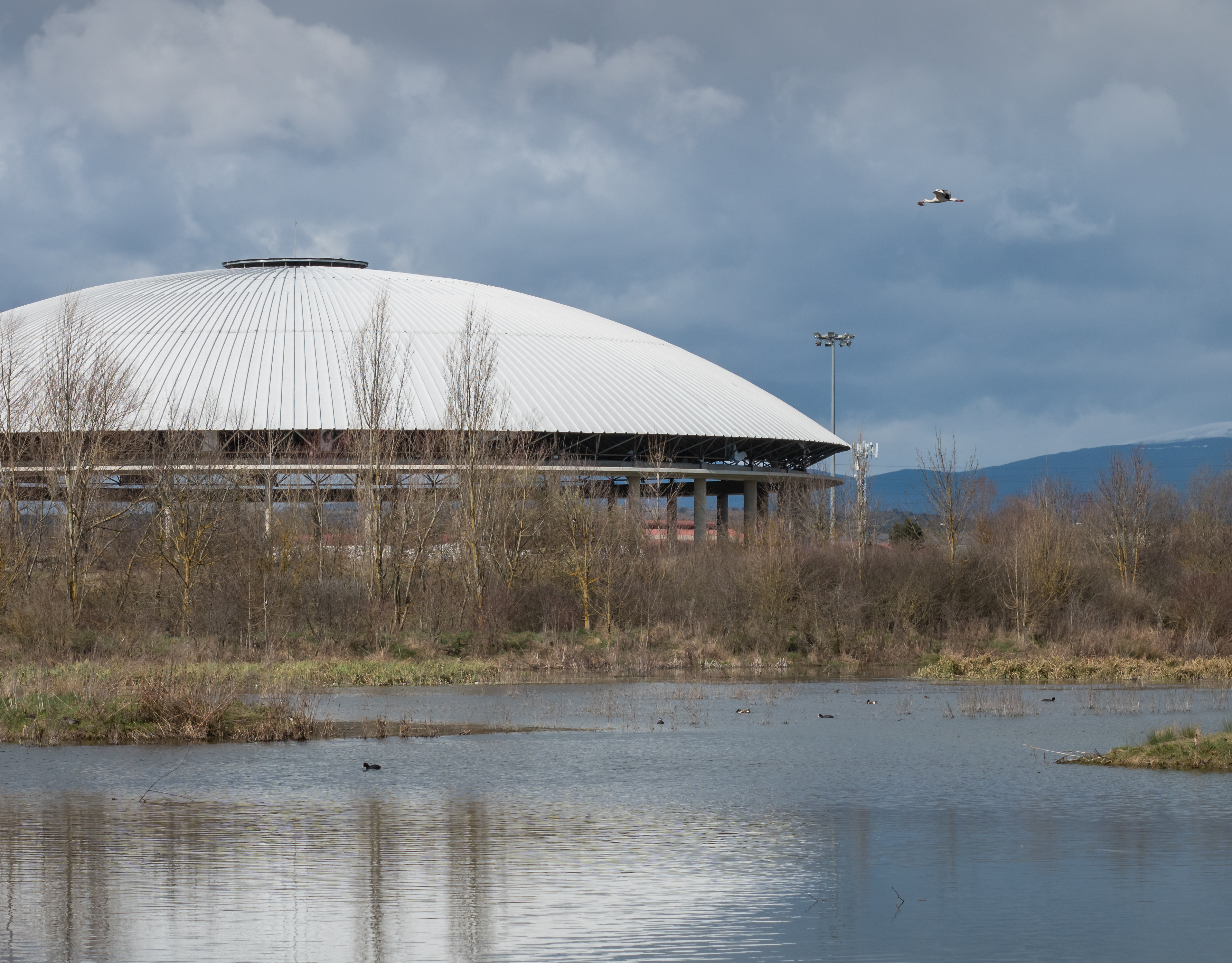 Old dome of the basketball stadium "Buesa Arena", currently used as a roof of parking lots. Vitoria-Gasteiz, Basque Country, Spain